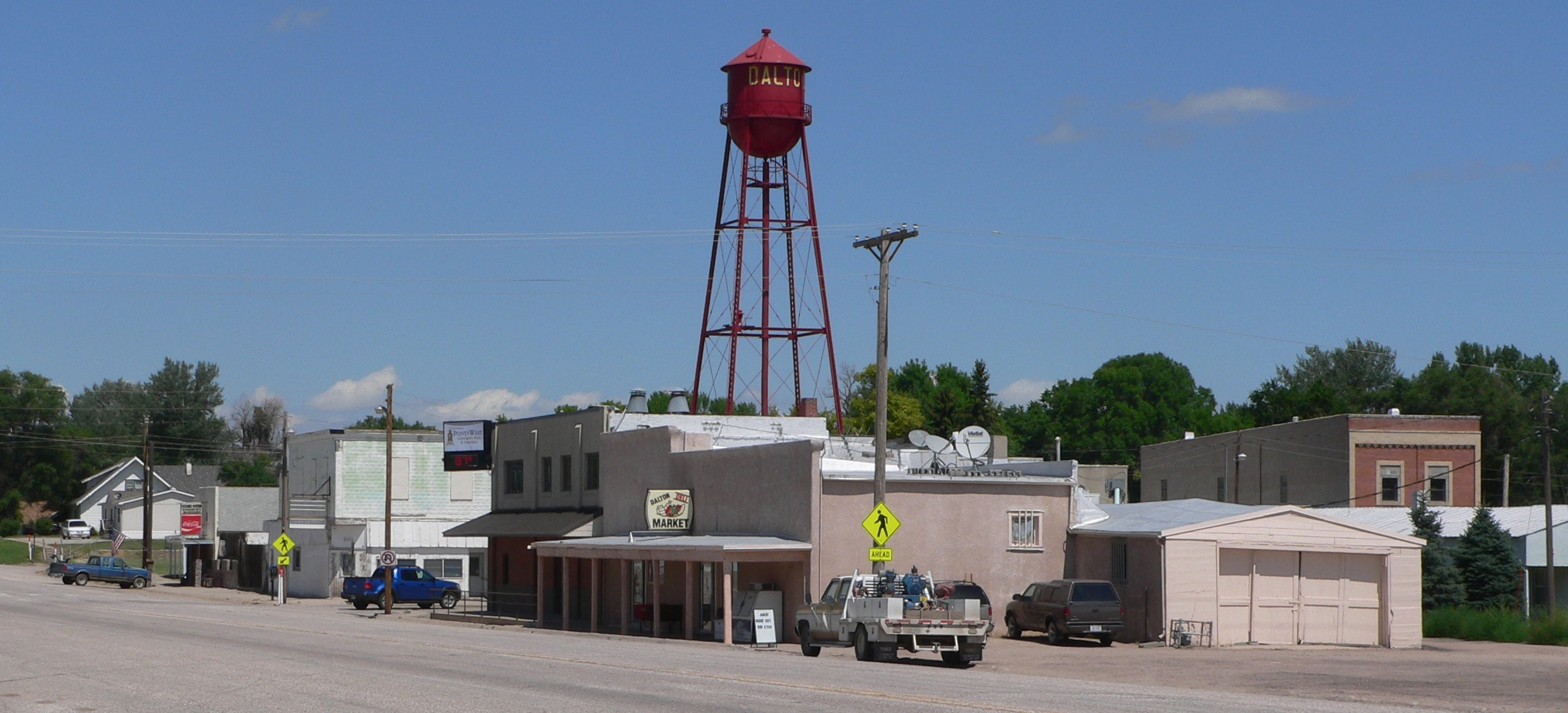 Dalton, Nebraska: camera is facing northeast; U.S. Highway 385 is in foreground.